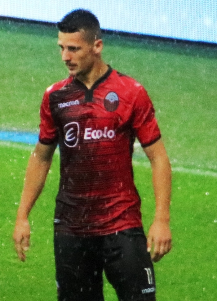 Champions-League qualifier 3rd round